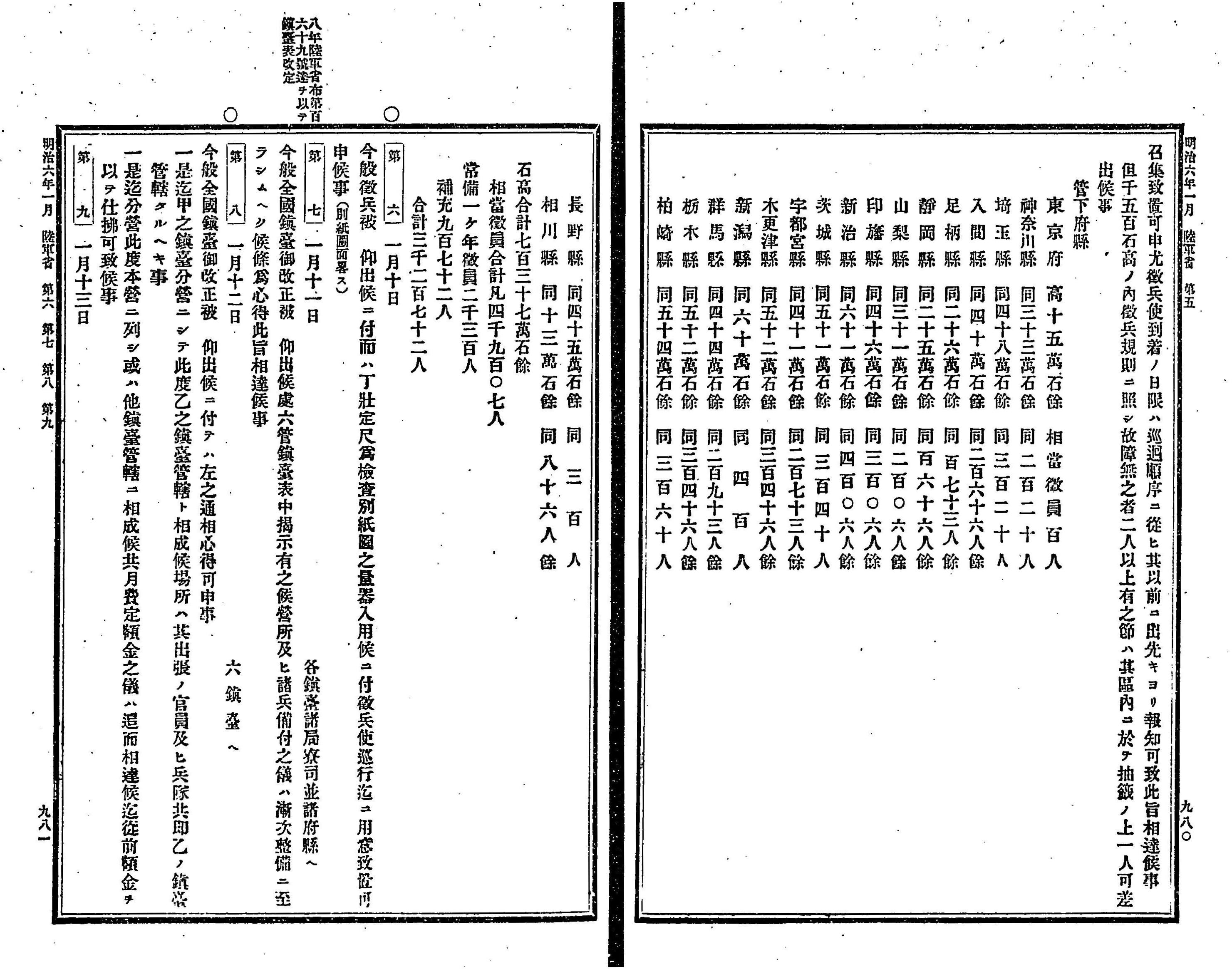 Number of conscription in the Imperial Japan Army order on 10th Jan. Horeizensho (1873).